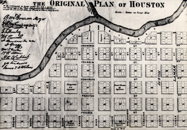 Photograph of a reproduction of a map created by Gail Borden, who was commissioned by the Allen brothers to produce a map of the city. The "Original Plan of Houston" shows a city hugging Buffalo Bayou with space reserved for a courthouse, churches, and schools.